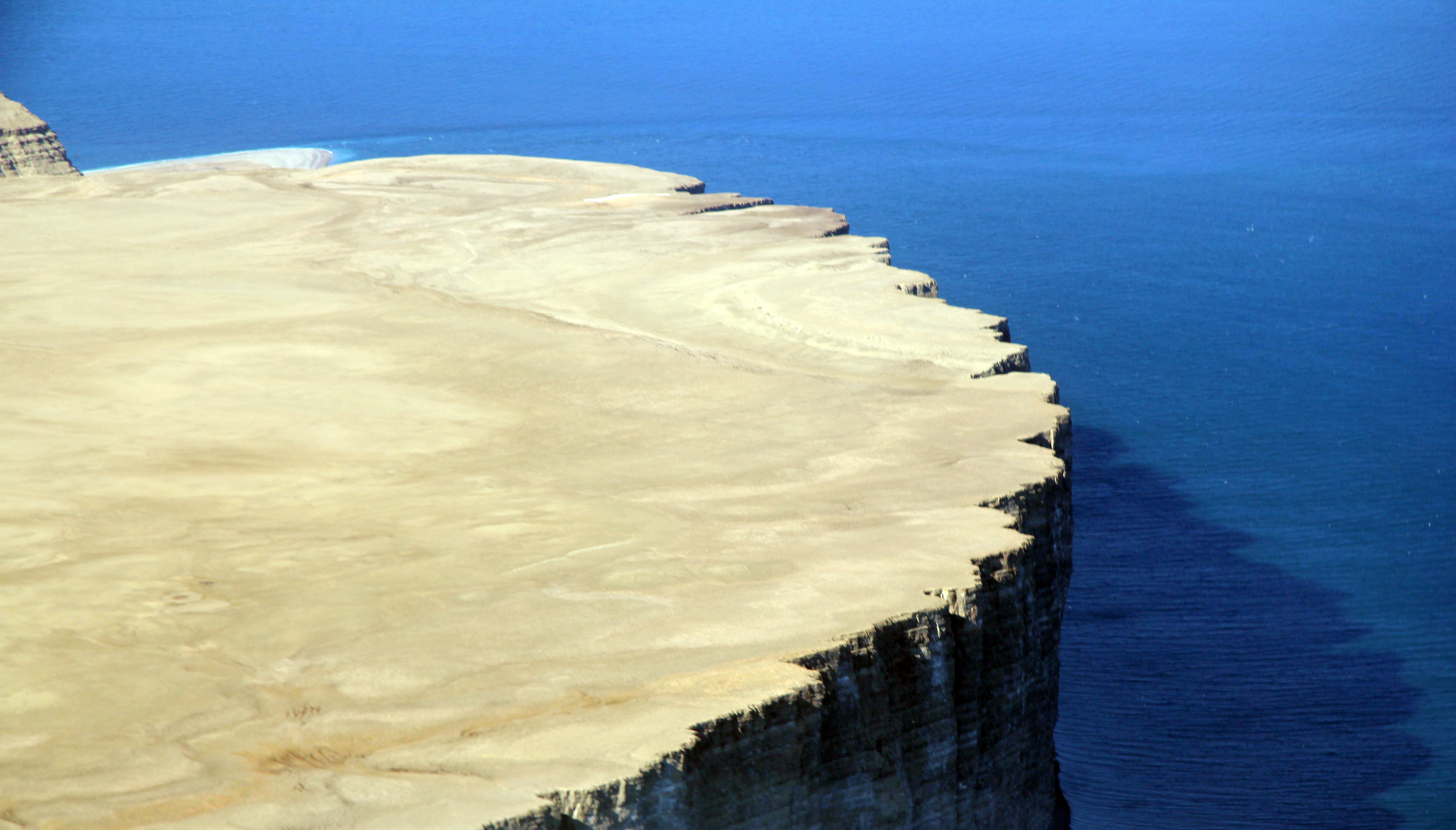 Most northern part of the island